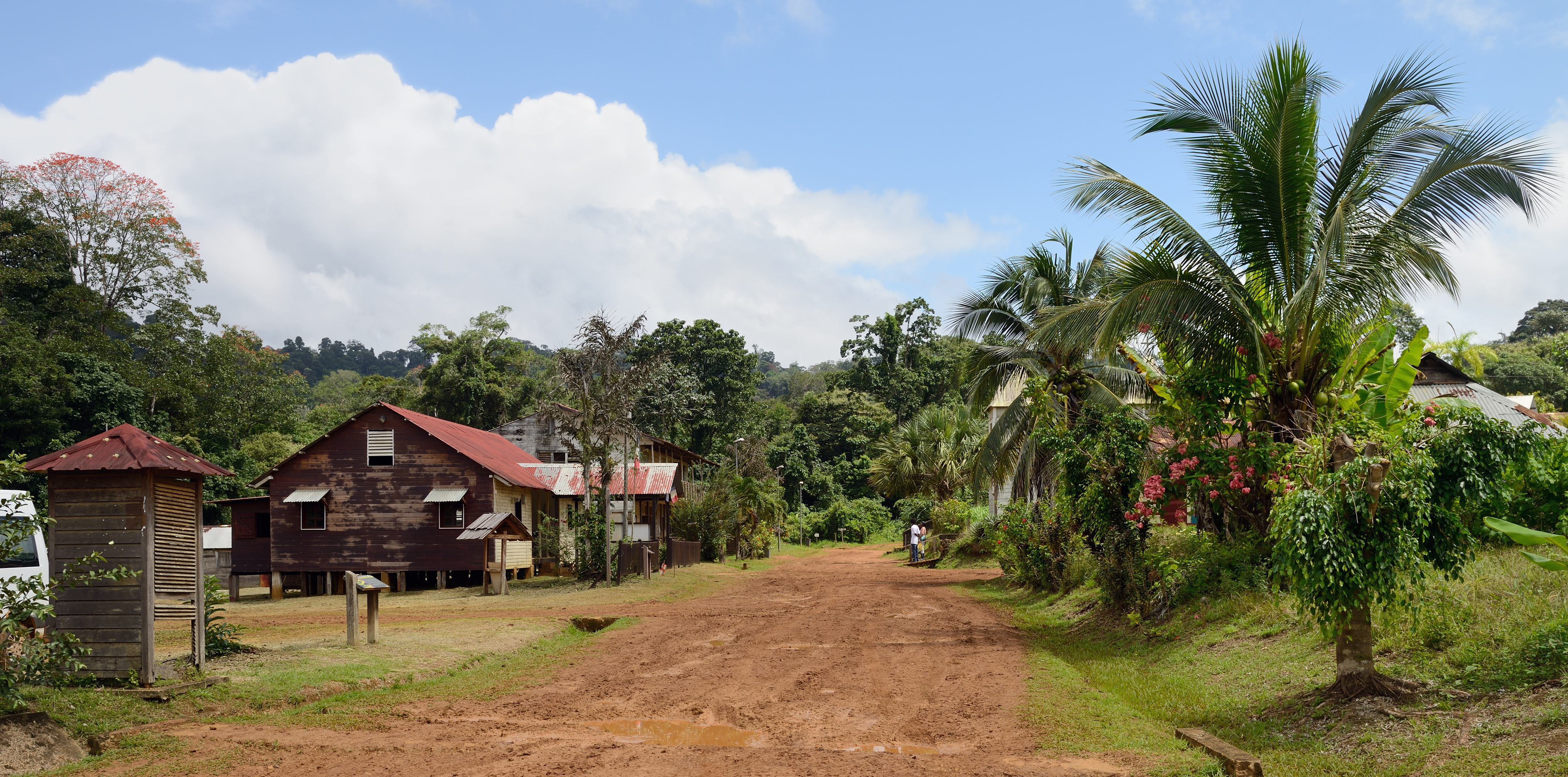 Main street, with the town hall in Saül, French Guiana.